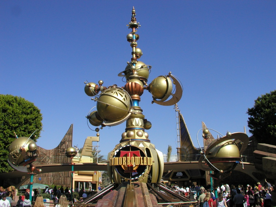 Tomorrowland Entrance Photographed by "LordBleen" - March 2002